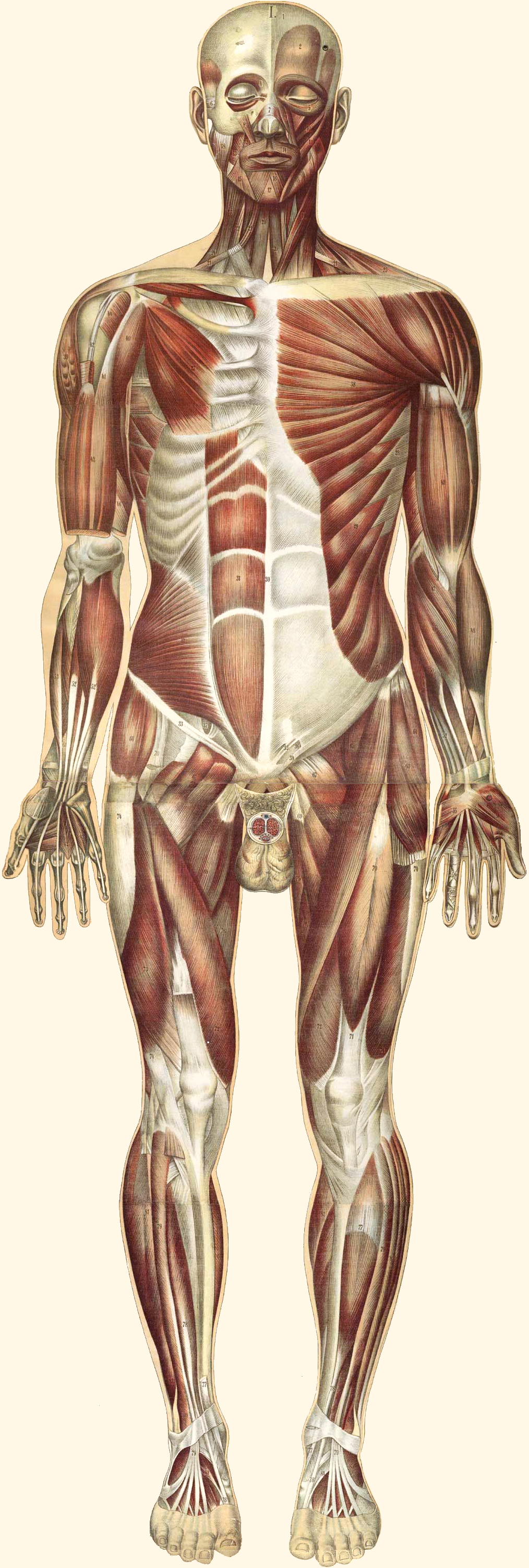 Title: Le corps humain et grandeur naturelle : planches coloriées et superposées, avec texte explicatif. Author(s)/Name(s): Bouglé, Julien. Publisher: Paris : J. B. Baillière et fils, 1899. Description: 1 plate : col. ill. Language: fre Electronic Links: MeSH Subjects: Anatomy Atlases Notes: "Texte explicatif": 15 p. inserted in pocket. Portions also available online. NLM Unique ID: 0227562 as retouched by User:The Anome to remove uneven background and split between the halves of the image, all retouching work public domain